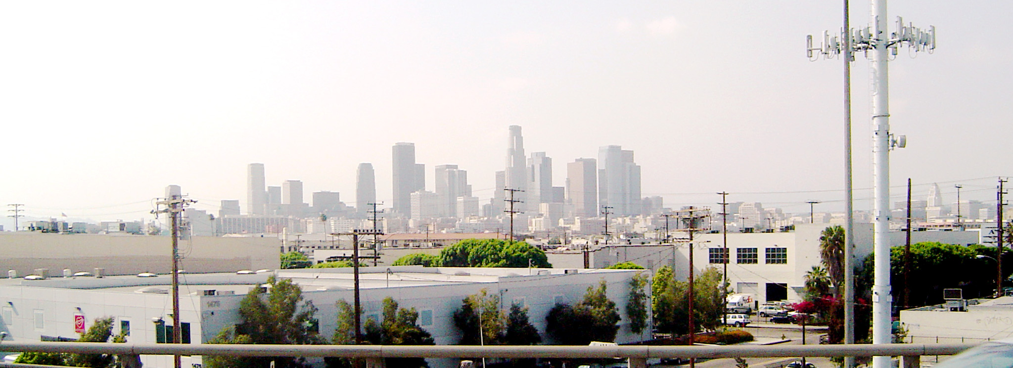 The Downtown Los Angeles skyline seen on an average hazy June Day, from the 5 Freeway. New Downtown is seen rising over the original Downtown, the Civic Center is seen far to the right. June 2005. English Wikipedia